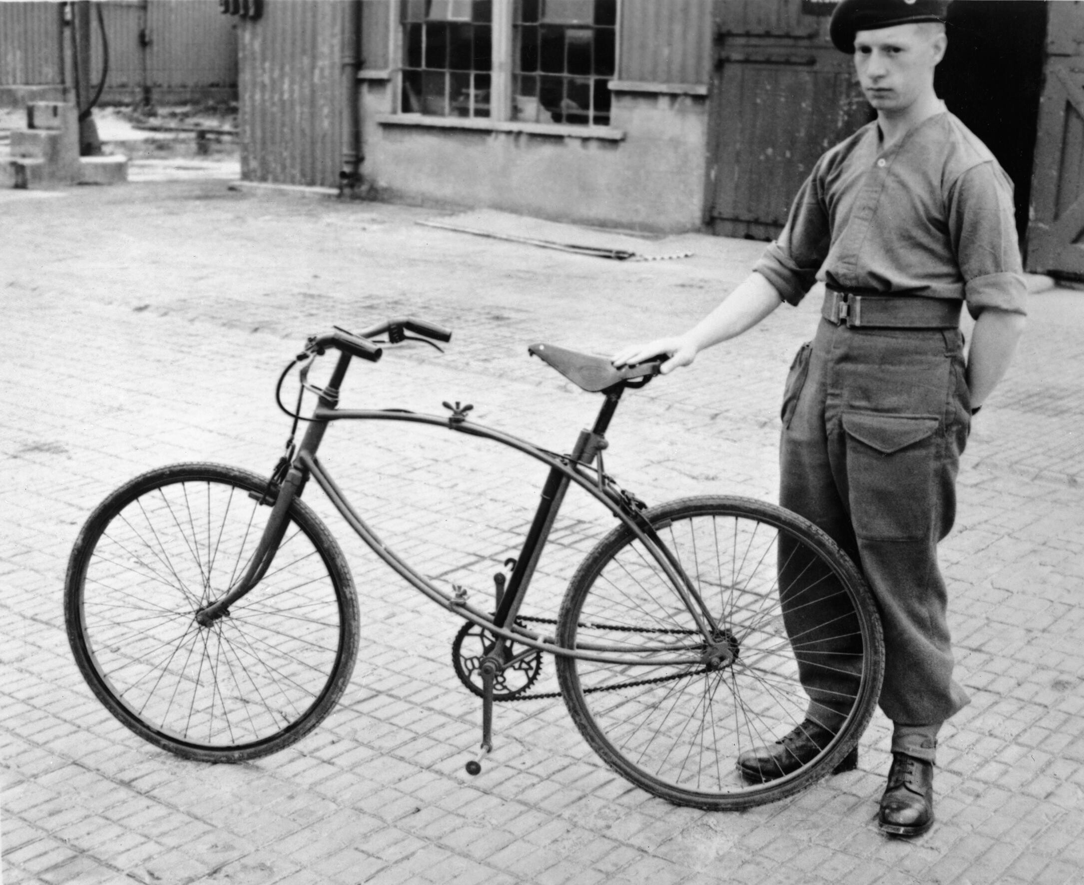 The British Army in the United Kingdom 1939-45 Folding bicycle as used by 1st Airborne Division, 29 August 1942.